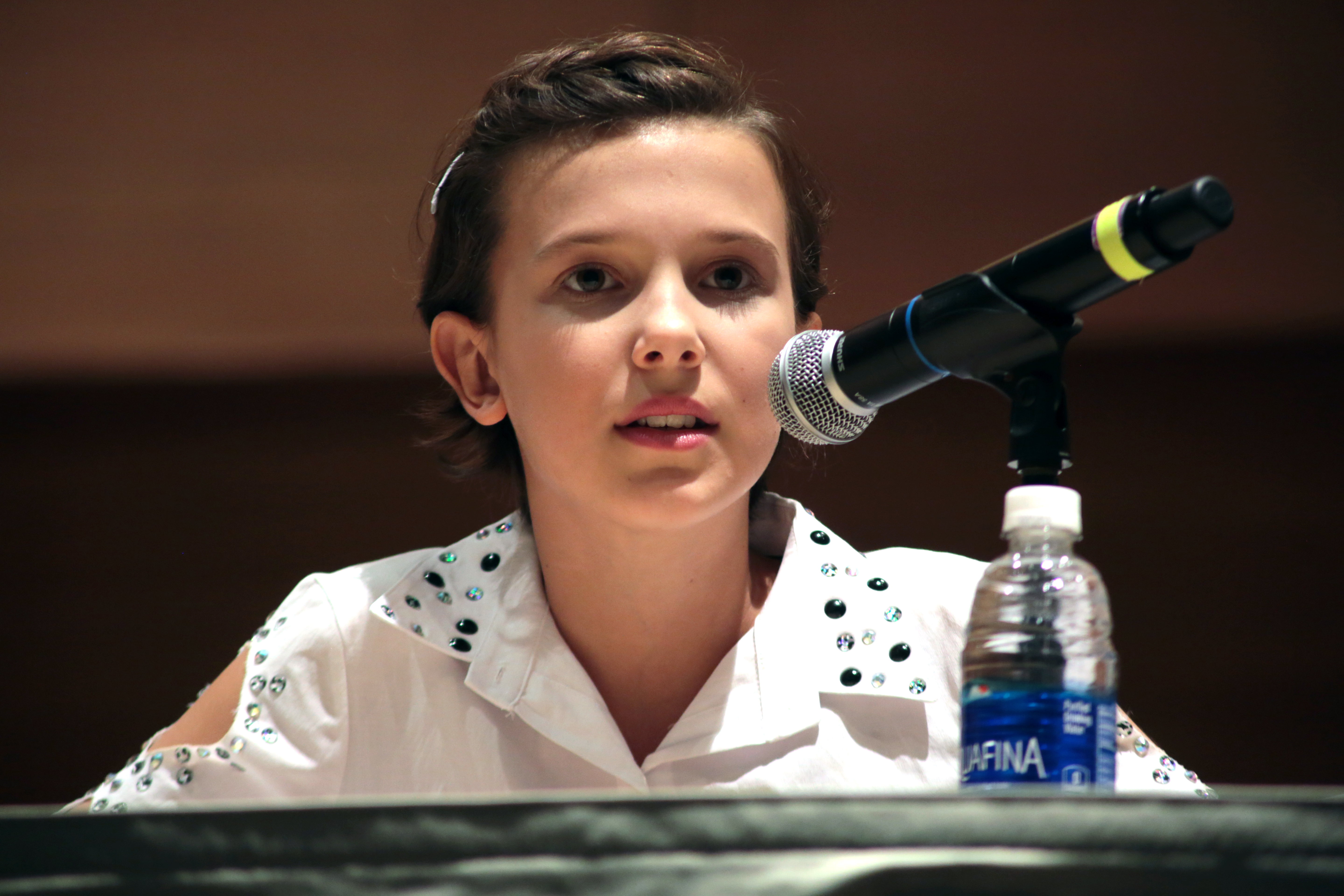 Actress Millie Bobby Brown at the 2016 Phoenix Comicon.